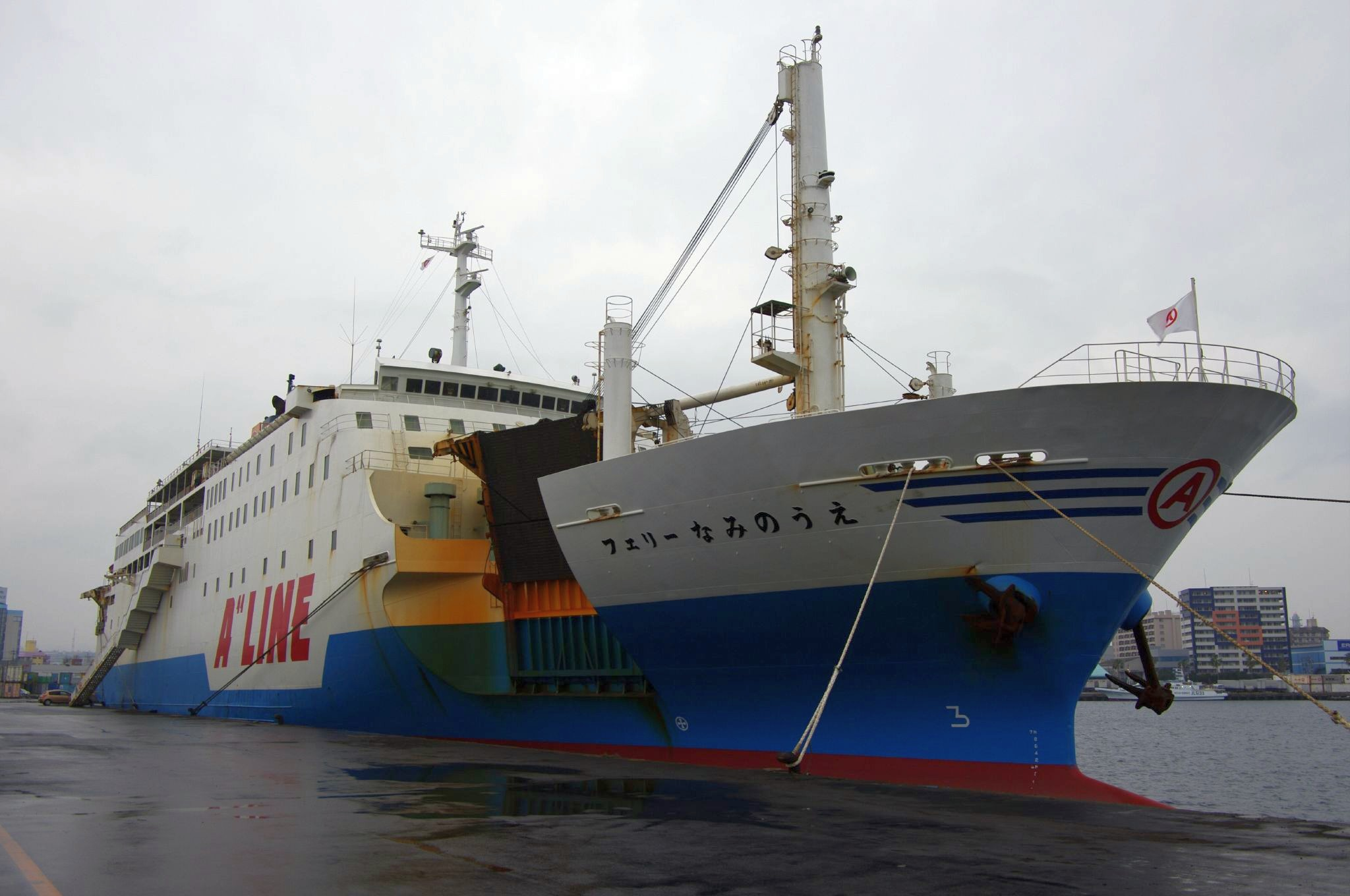 Ferry Naminoue (I) at the Port of Kagoshima